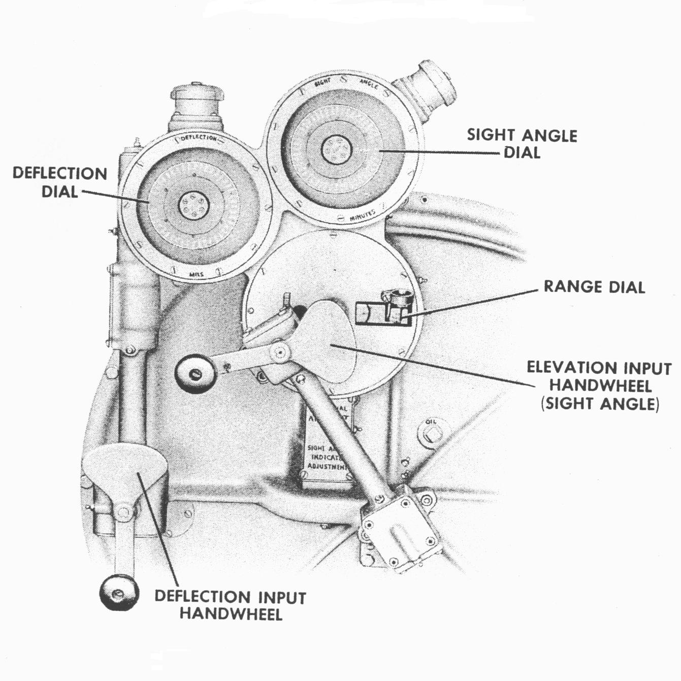 5"/38cal Sight Setter dials. Cropped portion of image scanned from source.